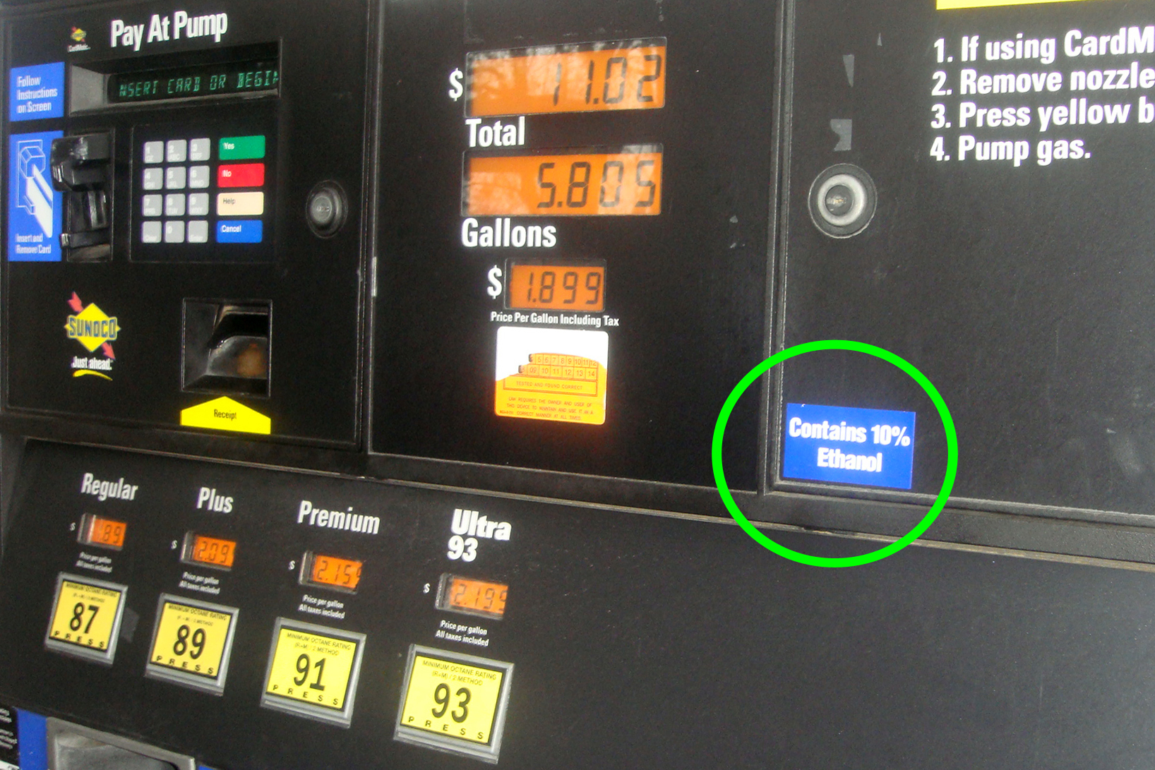 E10 label at a gasoline service pump in Rockville, Maryland regarding the use 10% of ethanol blended with gasoline. MD, US.